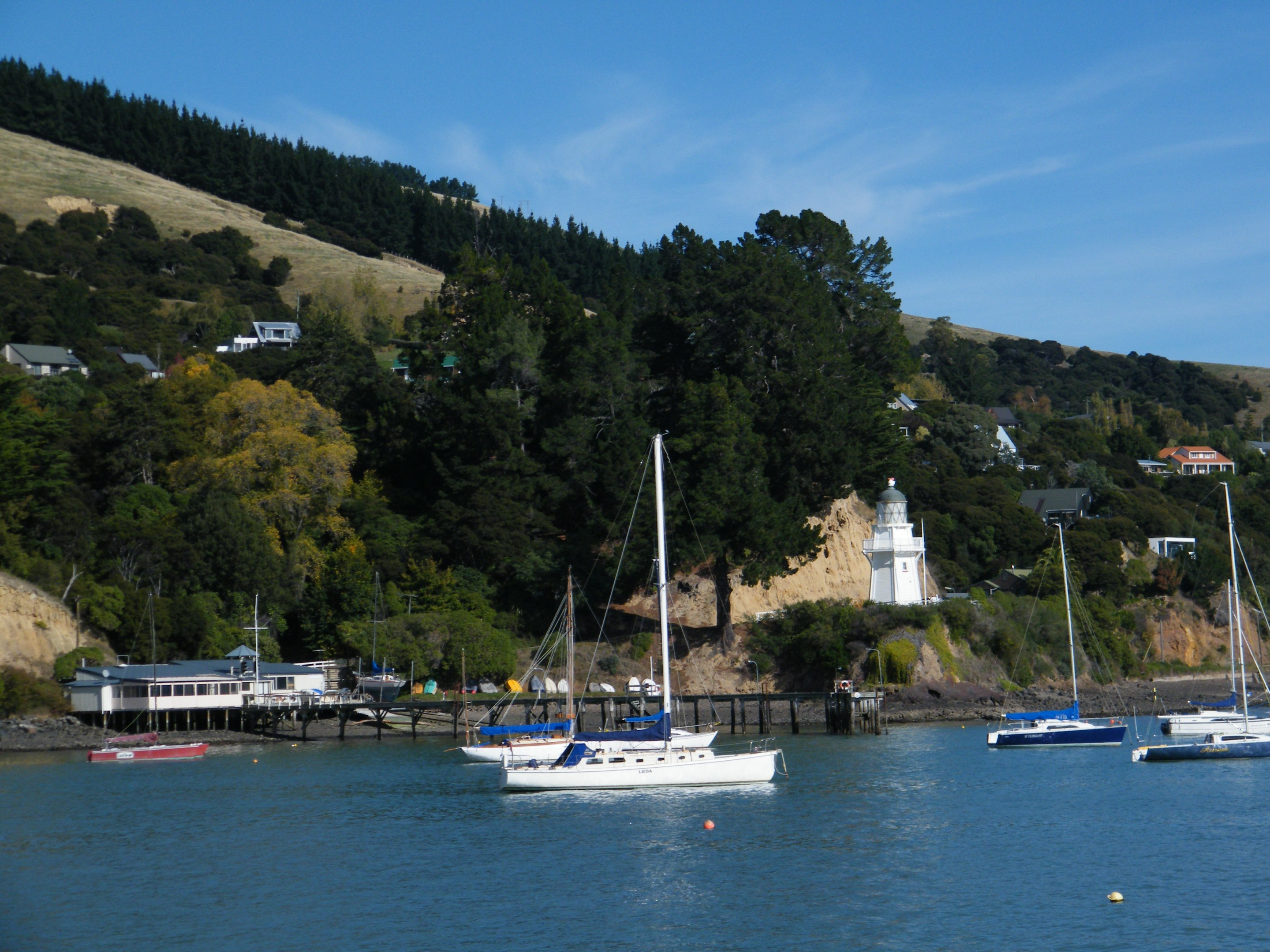 Beautiful calm day on Akaroa Harbour.